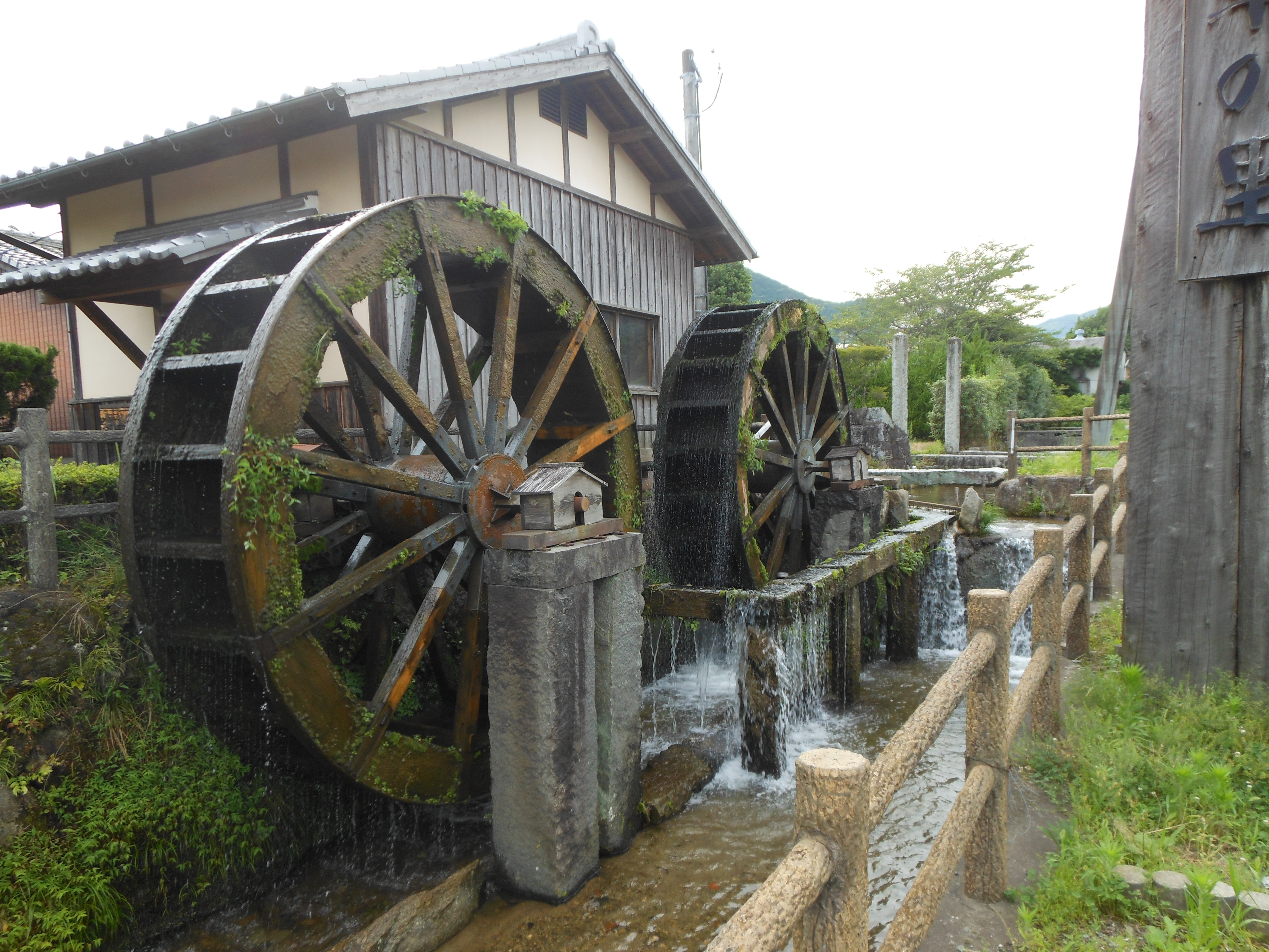 Suisha-no-sato Yugakukan, A waterwheel museum in Kanzaki city, Saga prefecture, Japan.